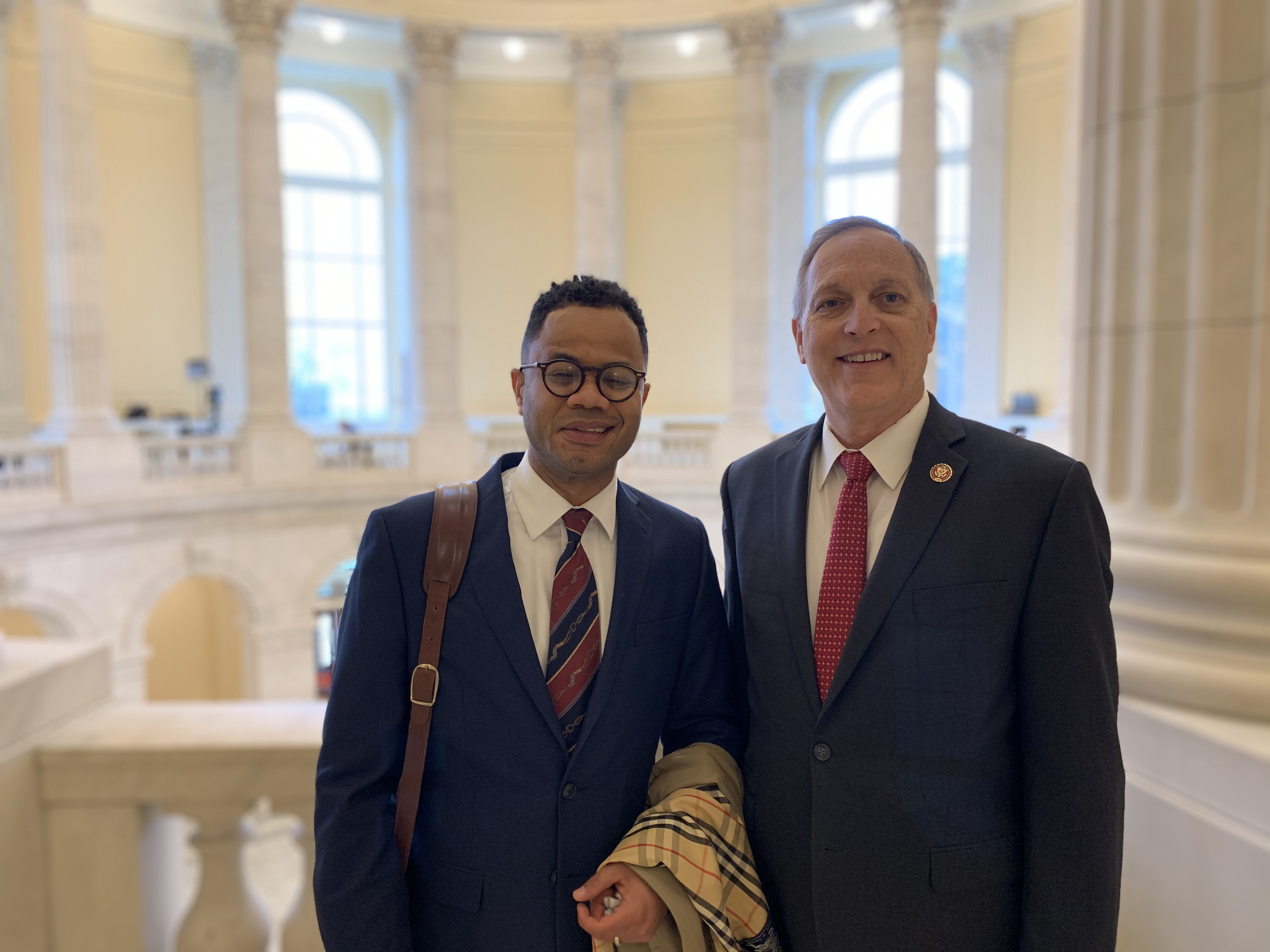 Great to spend some time this week with Mayor @RobertYUribe to talk about border security and upgrades to the Douglas port of entry. Thanks for taking the time, Mayor. Good to see you in Washington, D.C.